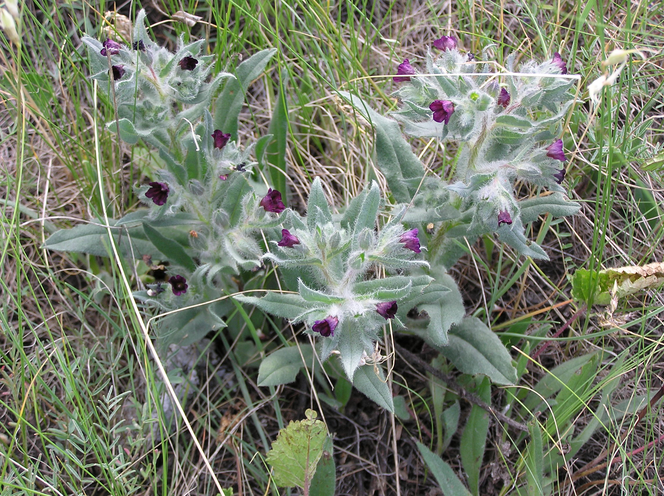 Nonea rossica (Steven) (syn.: Nonea pulla ssp. rossica (Steven) Soo), habitus. Habitat: steppe. Vicinity of Saratov city, Russia.